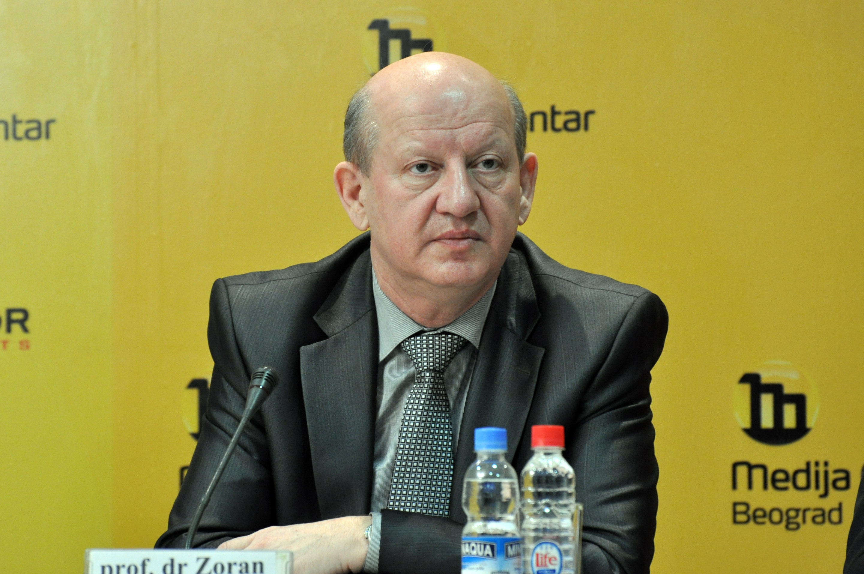 Zoran Stanković